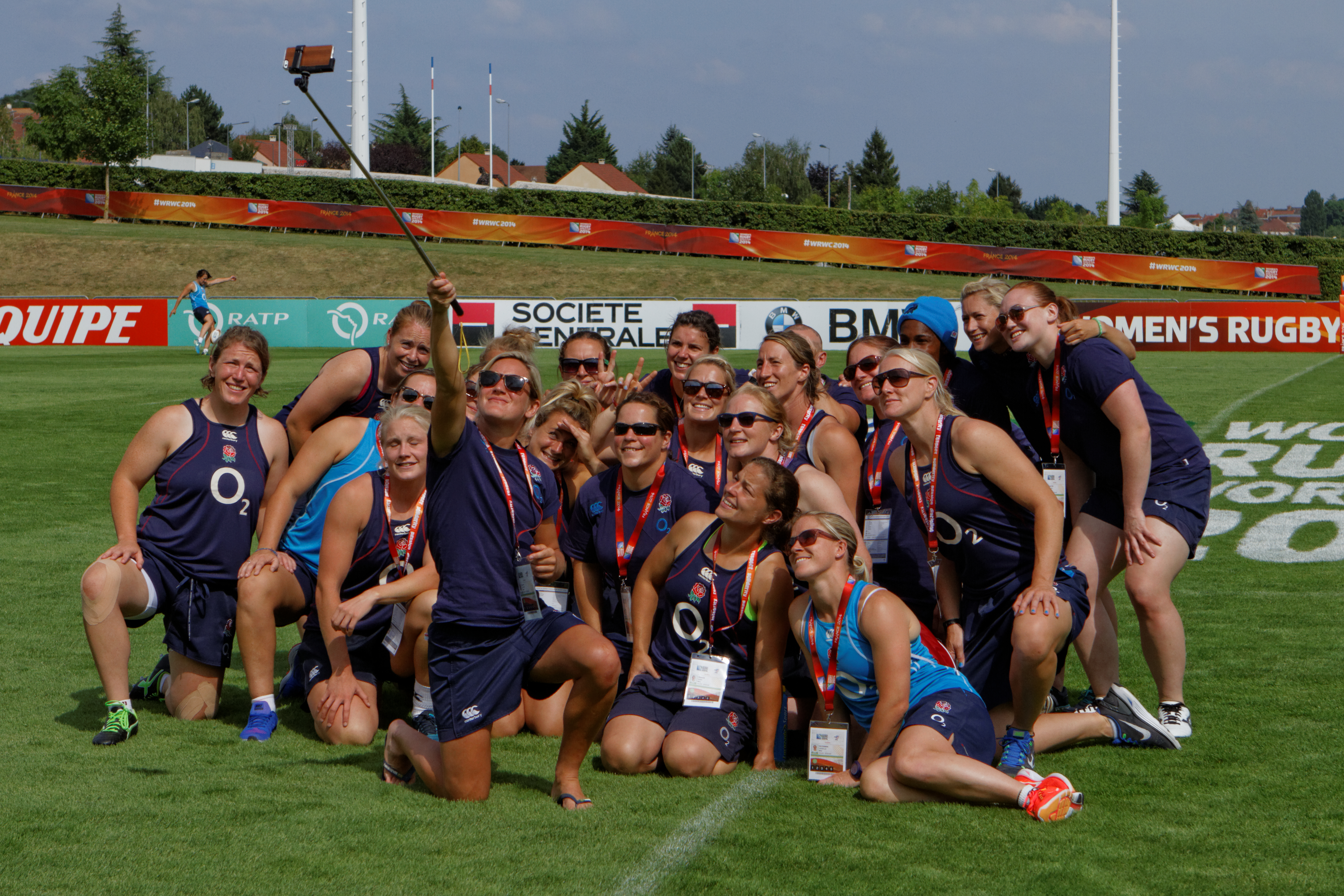 2014 Women's Rugby World Cup